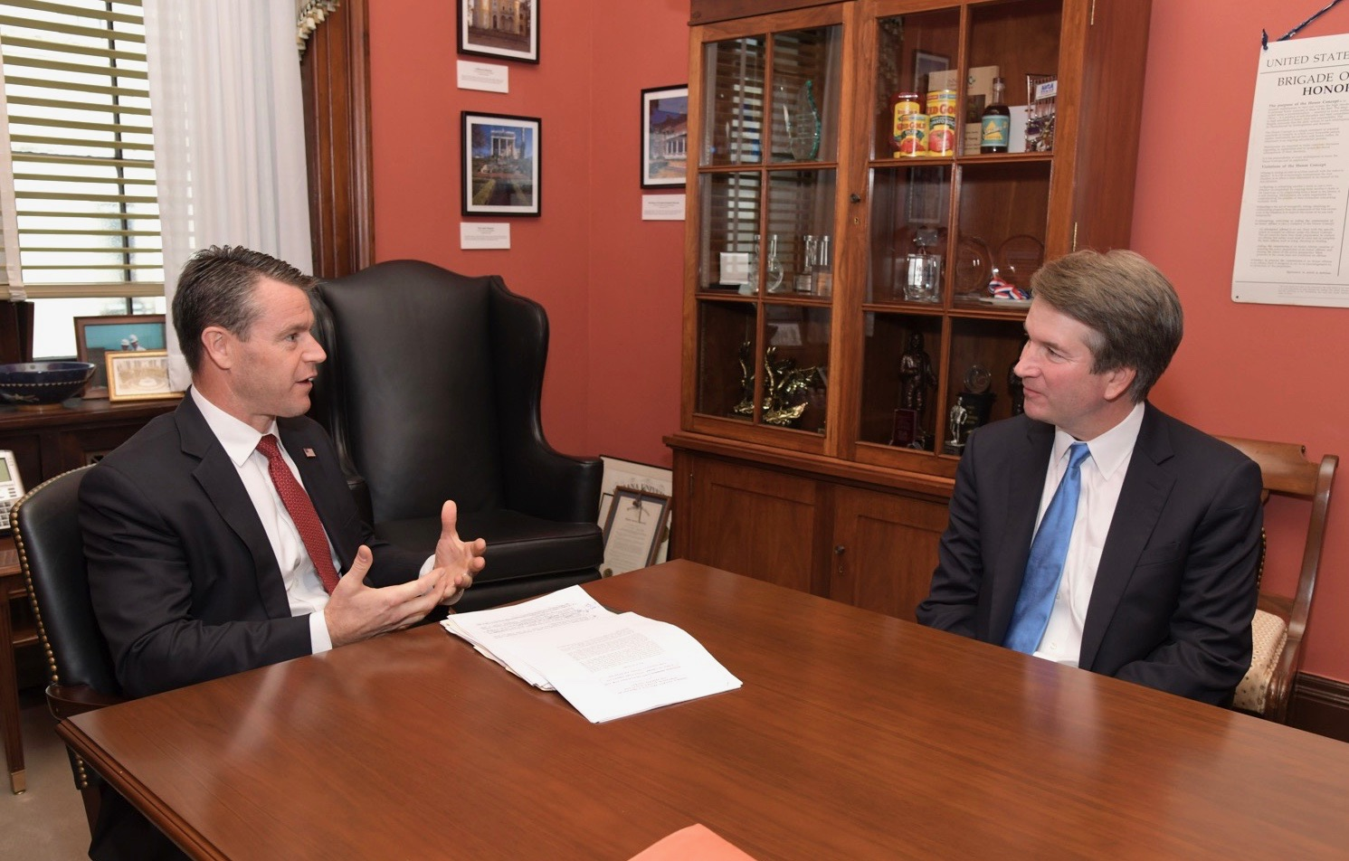 WASHINGTON, D.C. — U.S. Senator Todd Young (R-Ind.) today issued the following statement after meeting with Judge Brett Kavanaugh, President Trump’s nominee to serve as Supreme Court justice: “Today, I had the opportunity to sit down with Judge Kavanaugh and discuss a wide range of issues that are important to Hoosiers, including his approach to interpreting the Constitution. Judge Kavanaugh is a good and decent person, a family man, and a well-respected jurist. If confirmed, I have confidence that he will be faithful to the Constitution and preserve the integrity of the Supreme Court. Our discussion today will be very helpful as I continue to review Judge Kavanaugh’s record.”